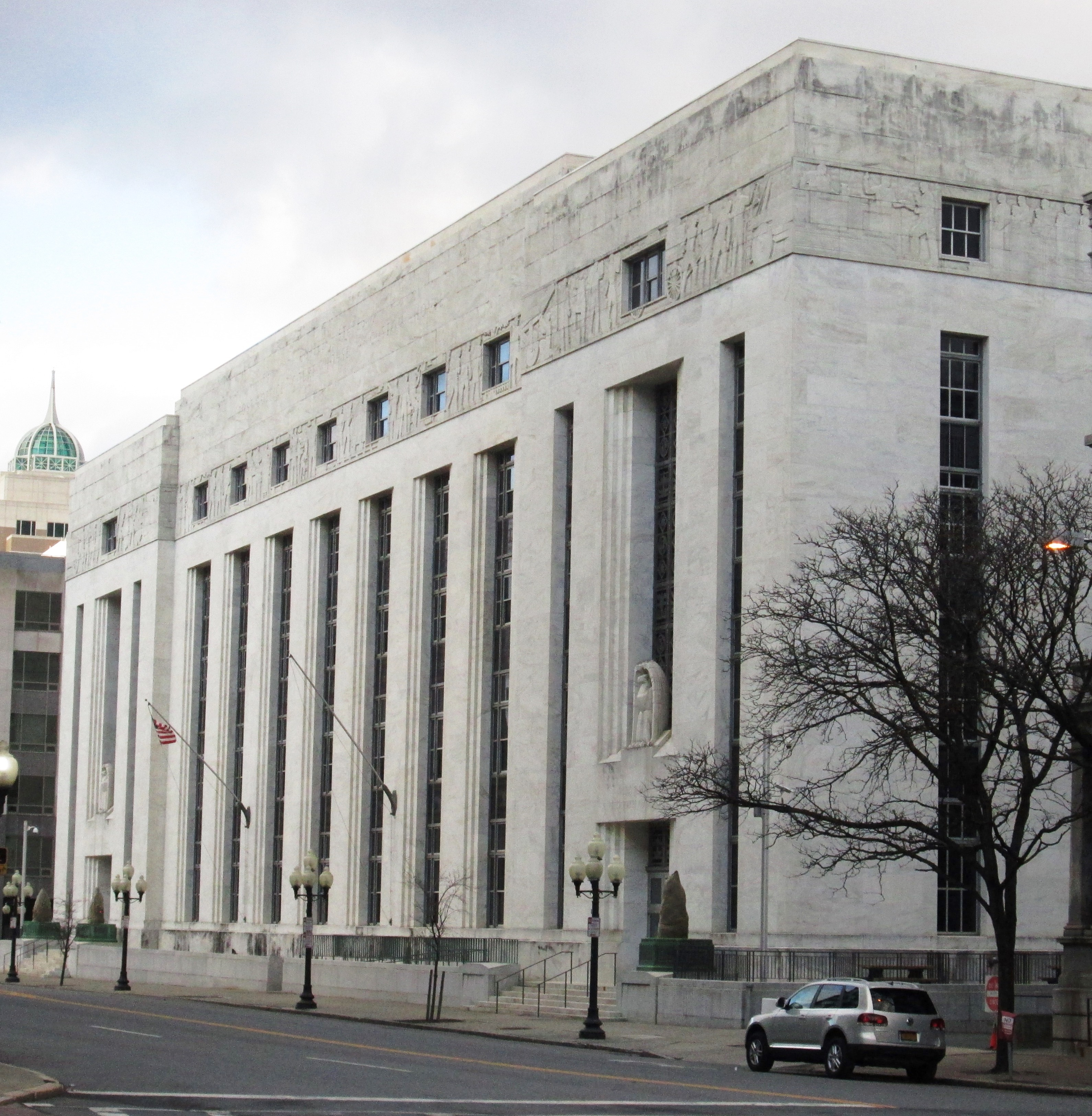 The James T. Foley U.S. Post Office and Courthouse located at 445 Broadway in Albany, New York, was built from 1933 to 1934 and was designed by Gander, Gander & Gander; Norman R. Sturgis; and Electus Darwin Litchfield in the Art Deco style. It houses courtrooms and chambers of the United States District Court for the Northern District of New York, offices of the district's U.S. Attorney, and the local offices of several federal law enforcement agencies. Until 1995 it was Albany's main post office. In 1980, the building was listed in the National Register of Historic Places as a contributing building to the Downtown Albany Historic District.